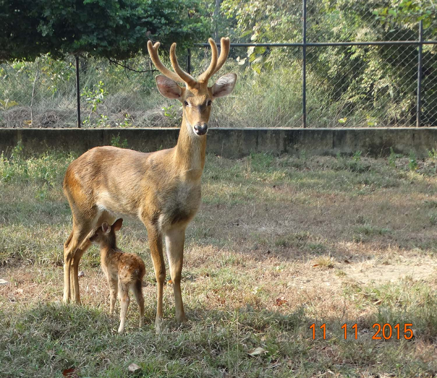 The image shows a male sangai deer with a newborn fawn. It was taken at the Kanan Pendari zoo, Bilaspur, Chhattisgarh, India.